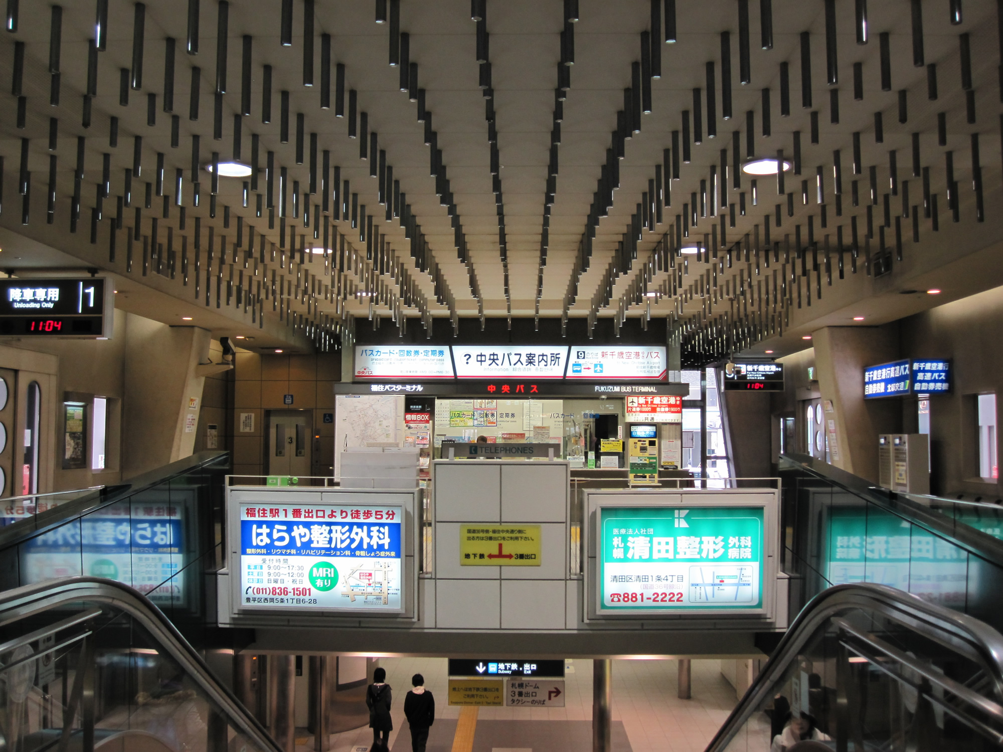 Information desk and underground walkway at Fukuzumi Bus Terminal